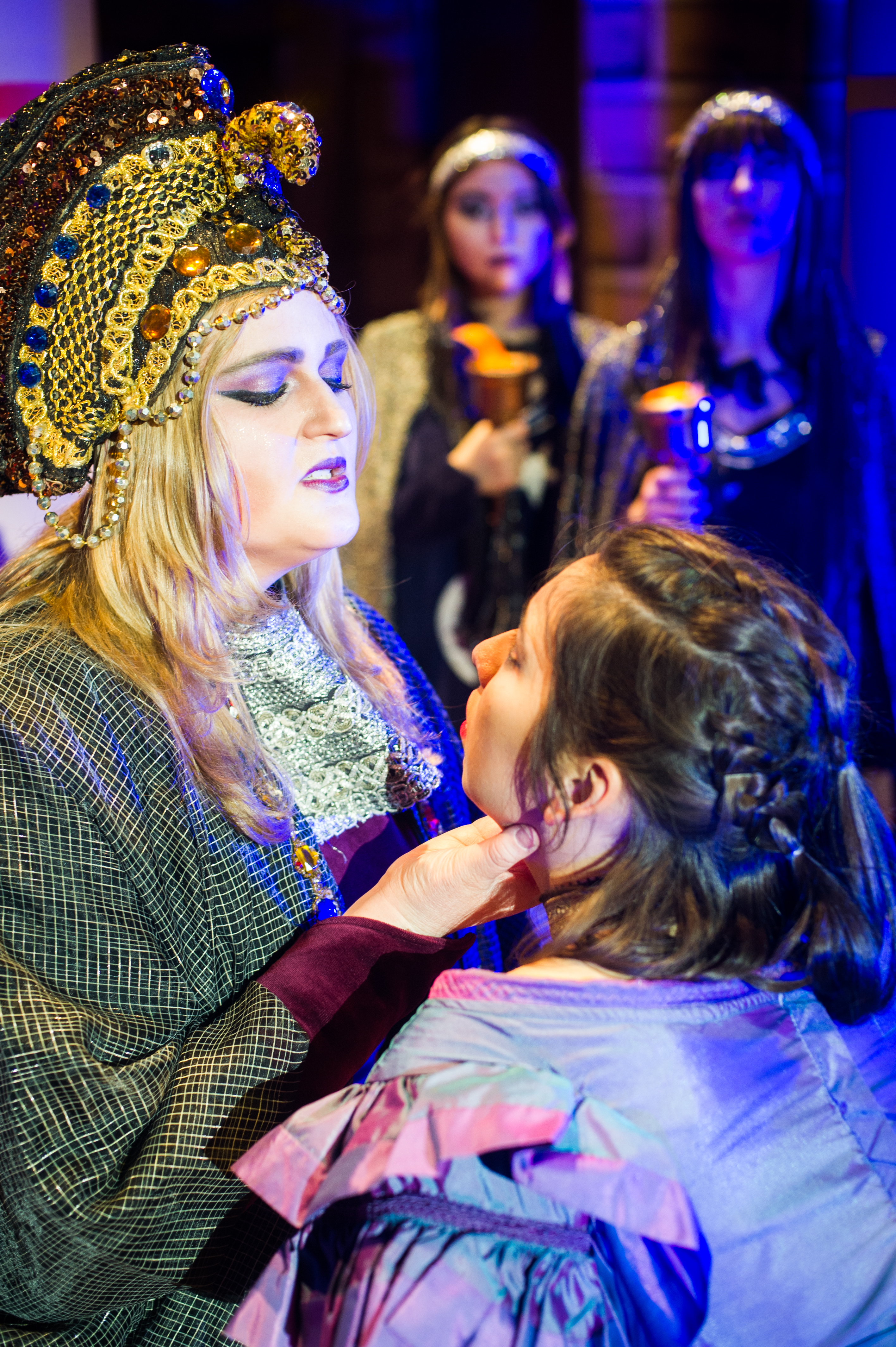 15031-Magic Flute Production-0394 Magic Flute production at Texas A&M University–Commerce